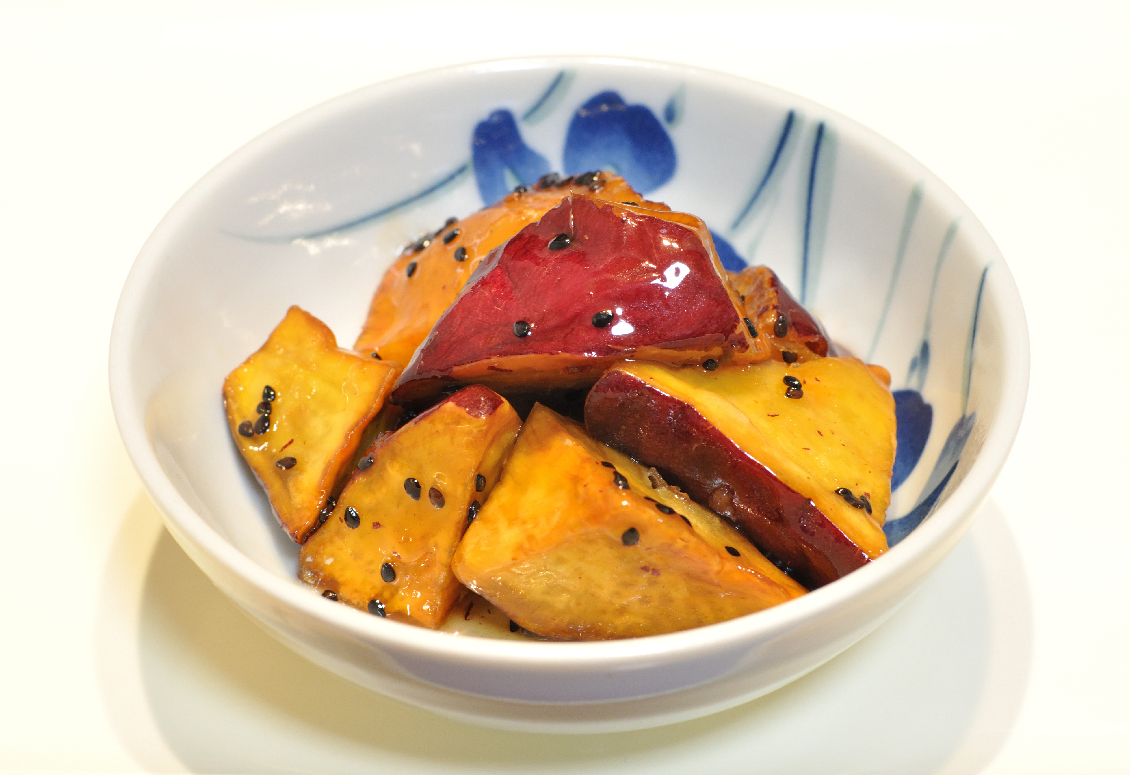 Typical Daigakuimo（fried and candied sweet potato）